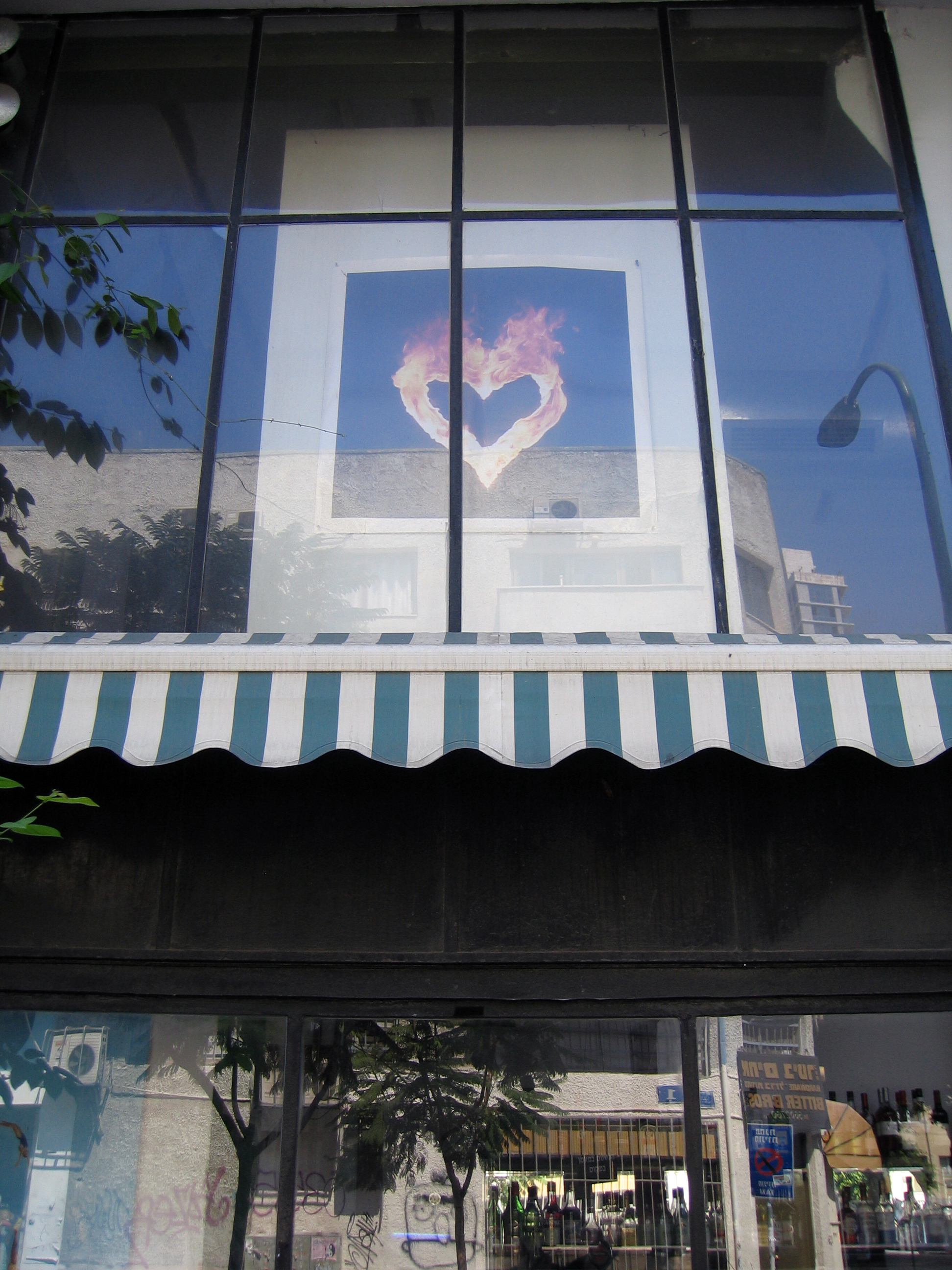 צילום של הילה לולו לין בבית קפה ברחוב אלנבי פינת רח' לבונטין בתל אביב-יפו.